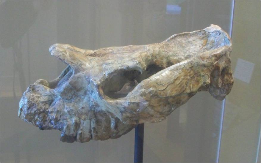 Fossil of Leontinia gaudryi at the Amherst Museum of Natural History.